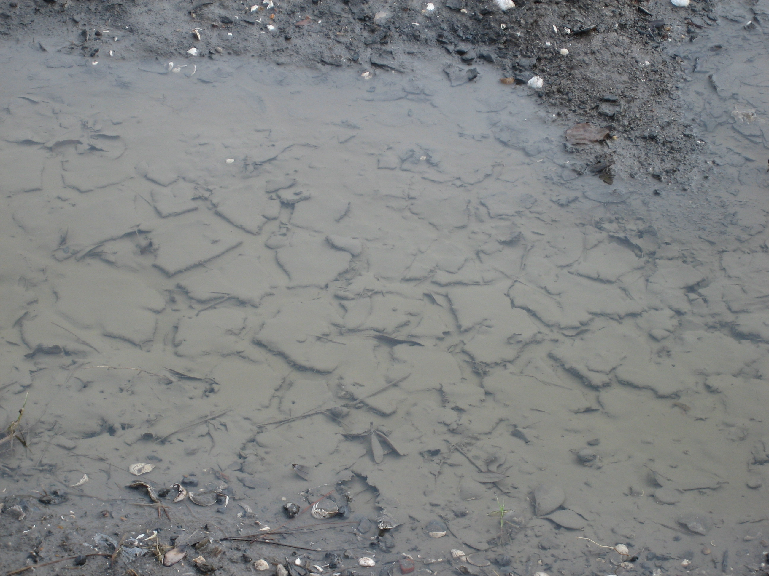 New Orleans after Hurricane Katrina: Silt and standing water, formerly flooded Lower 9th Ward.